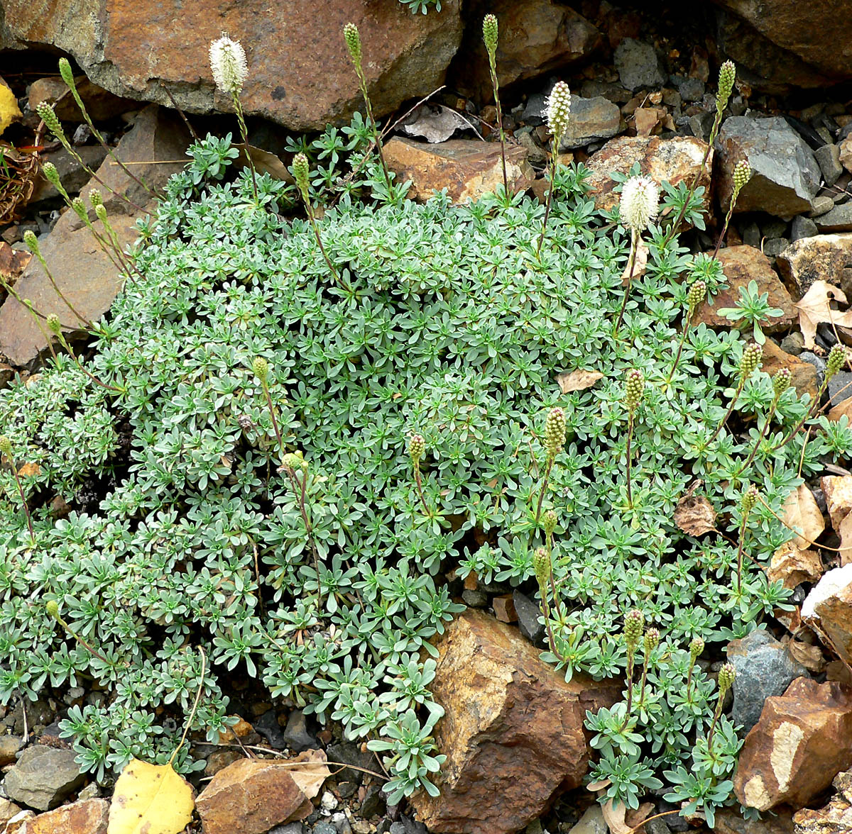 Photo of Petrophytum caespitosum at the Regional Parks Botanic Garden